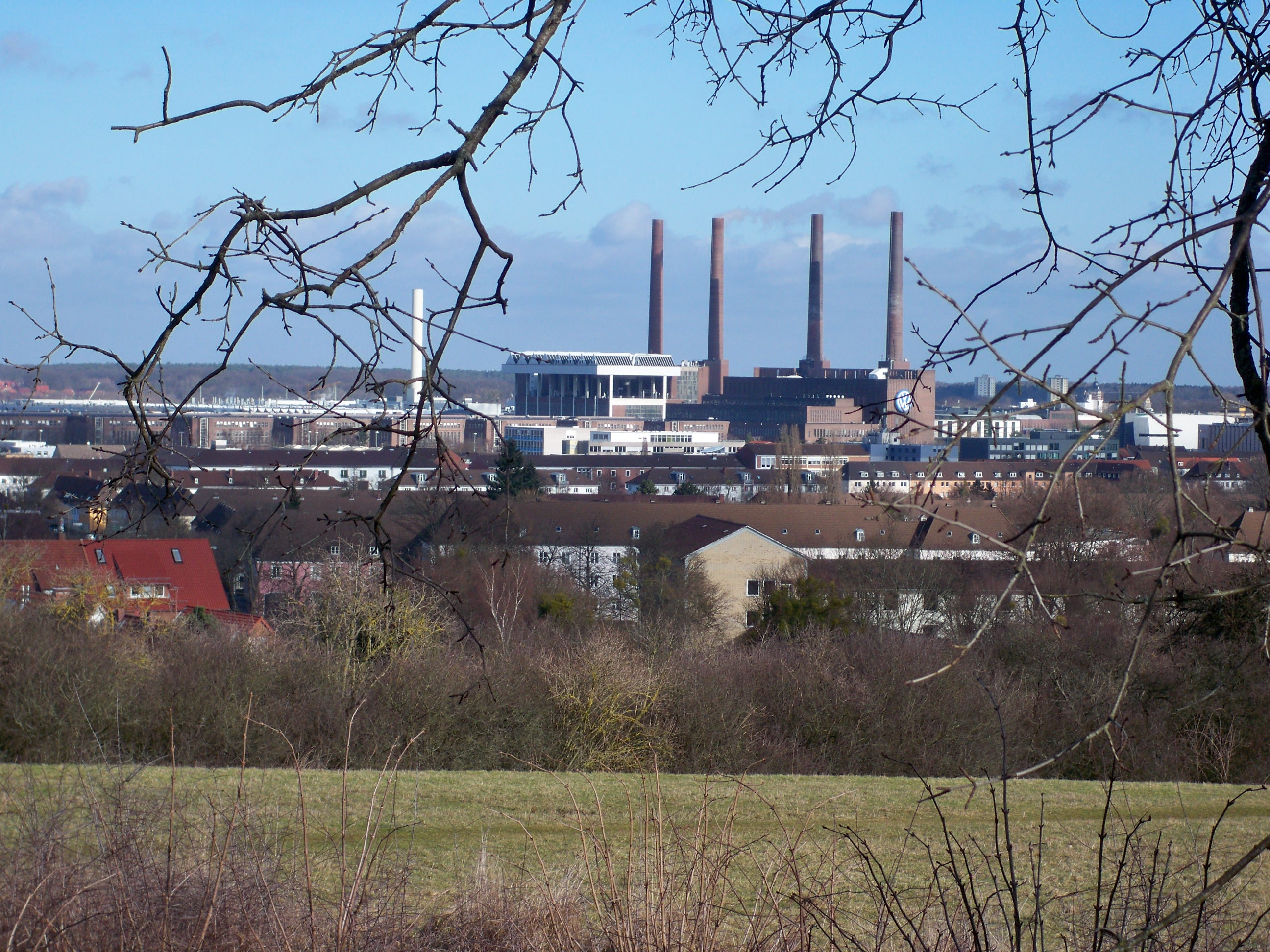 Wolfsburg, Lower Saxony, Klieversberg, view towards Volkswagen power station